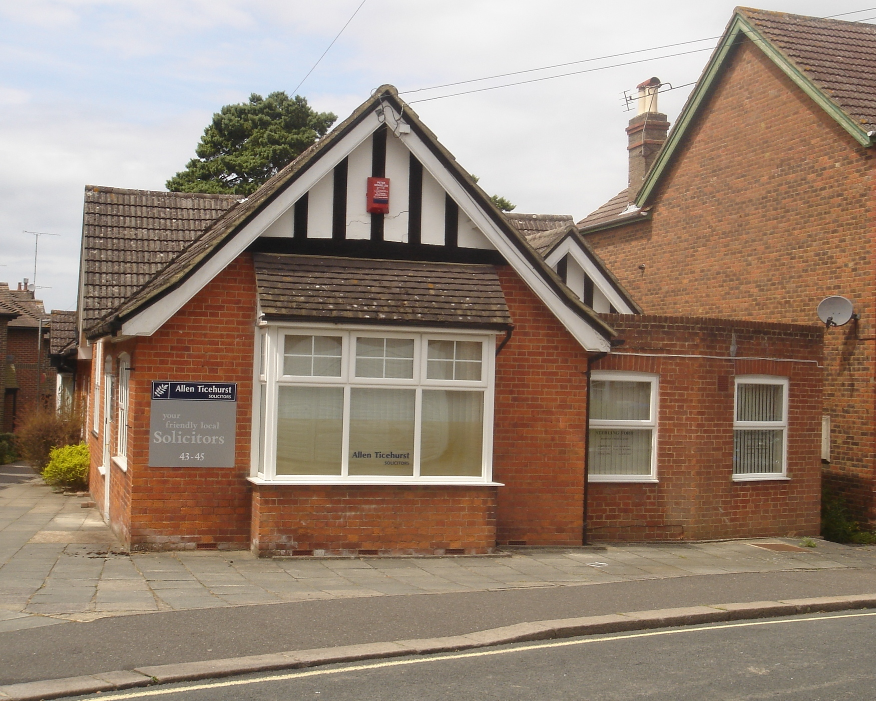 Former Christian Scientist church, Cantelupe Road, East Grinstead, District of Mid Sussex, West Sussex, England. Converted from its former use (a school) in 1930, but ceased to be used for worship in 1985. It is now in commercial use.